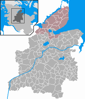 Locator maps of municipalities in Schleswig-Holstein - District Rendsburg-Eckernförde